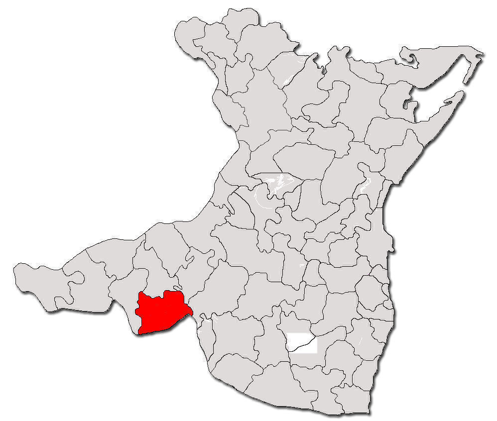 Contour map of commune Dobromir